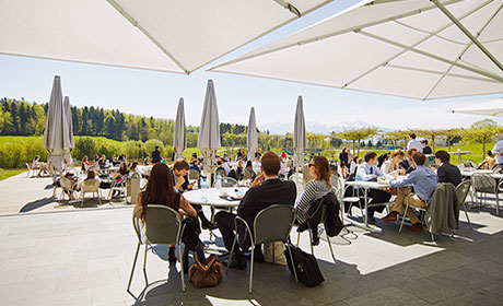 View of the campus terrasse